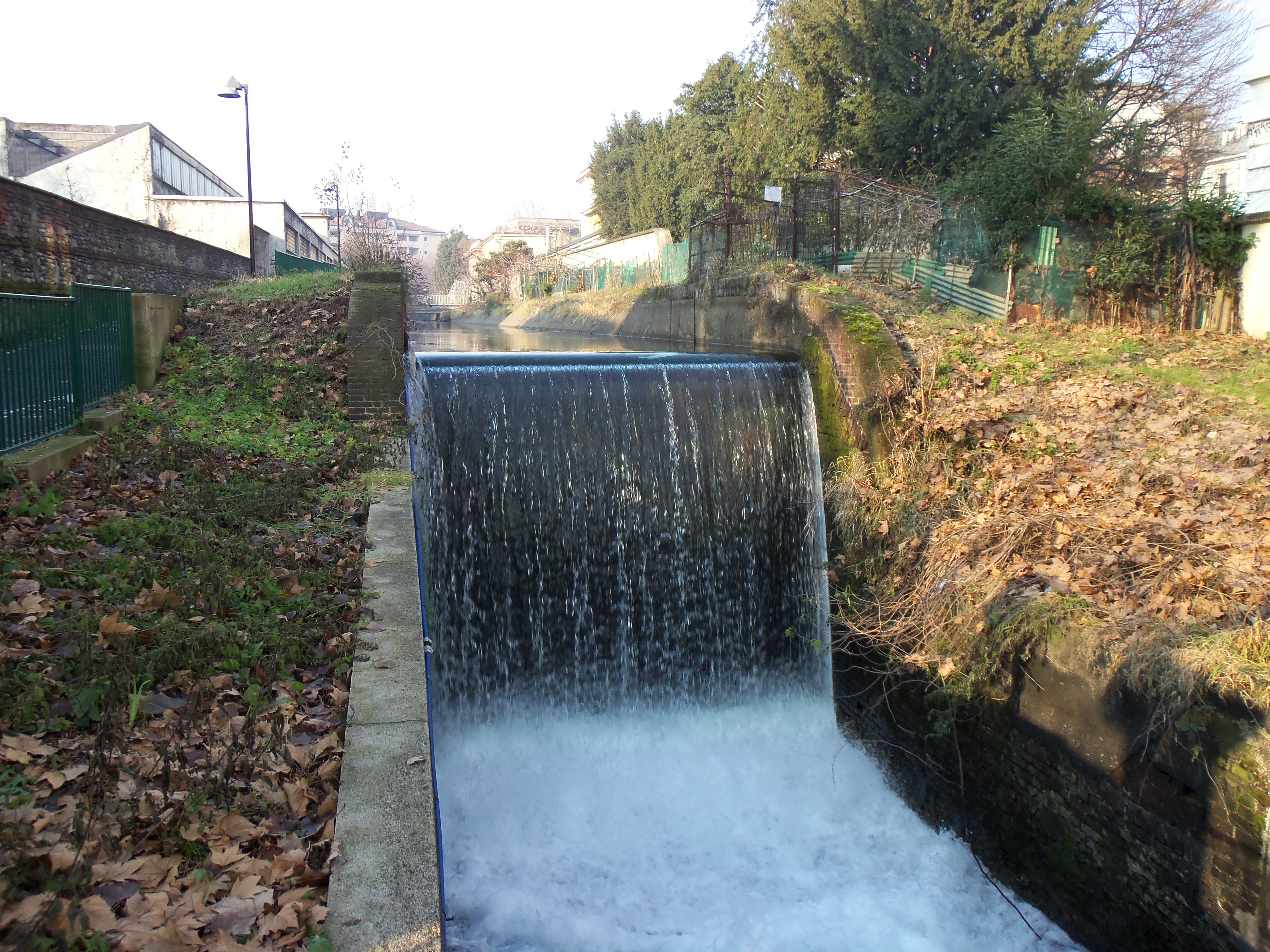 Canale Villoresi fall, crossing Monza)